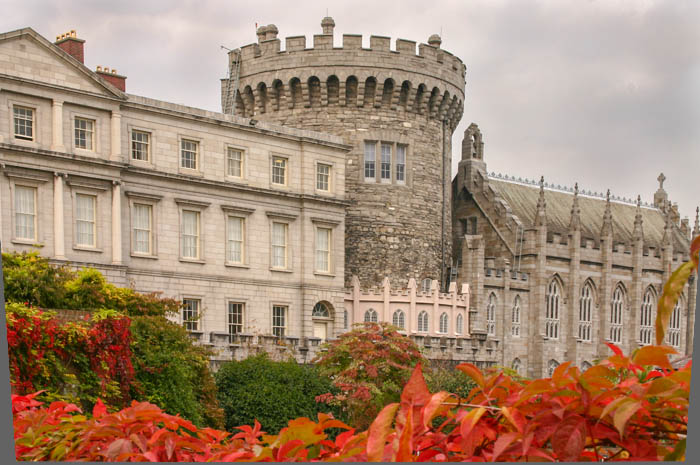 I'm starting to work on my massive backlog - these are photos I took on a short trip to Ireland in October 2004. I lost my notes a long time ago so I have to rely on my fading memory - feel free to fill in any missing blanks or wrong information. It was a good trip; I home based in Dublin and took a number of day trips. I do remember that I needed to get back some time and see the rest of Ireland - what a lovely country!